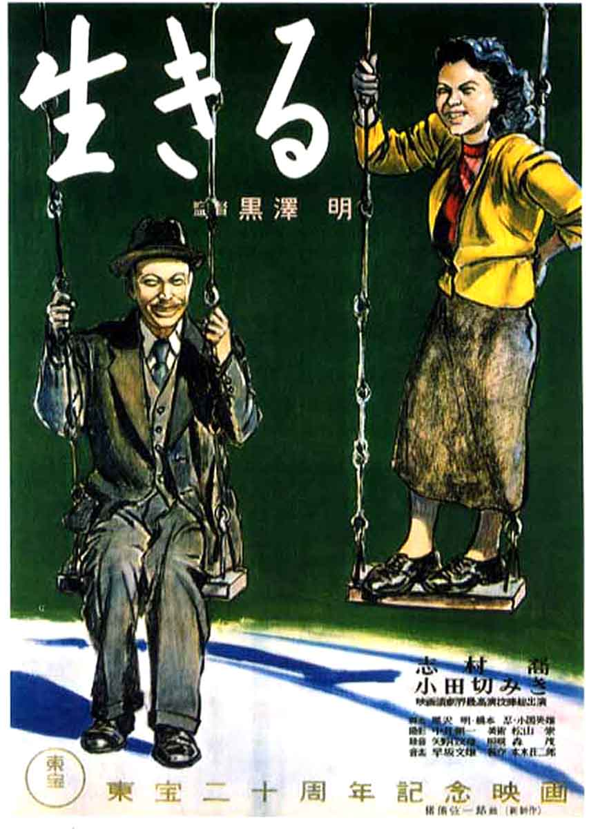 Theatrical release poster for 1952 Japanse movie Ikiru.